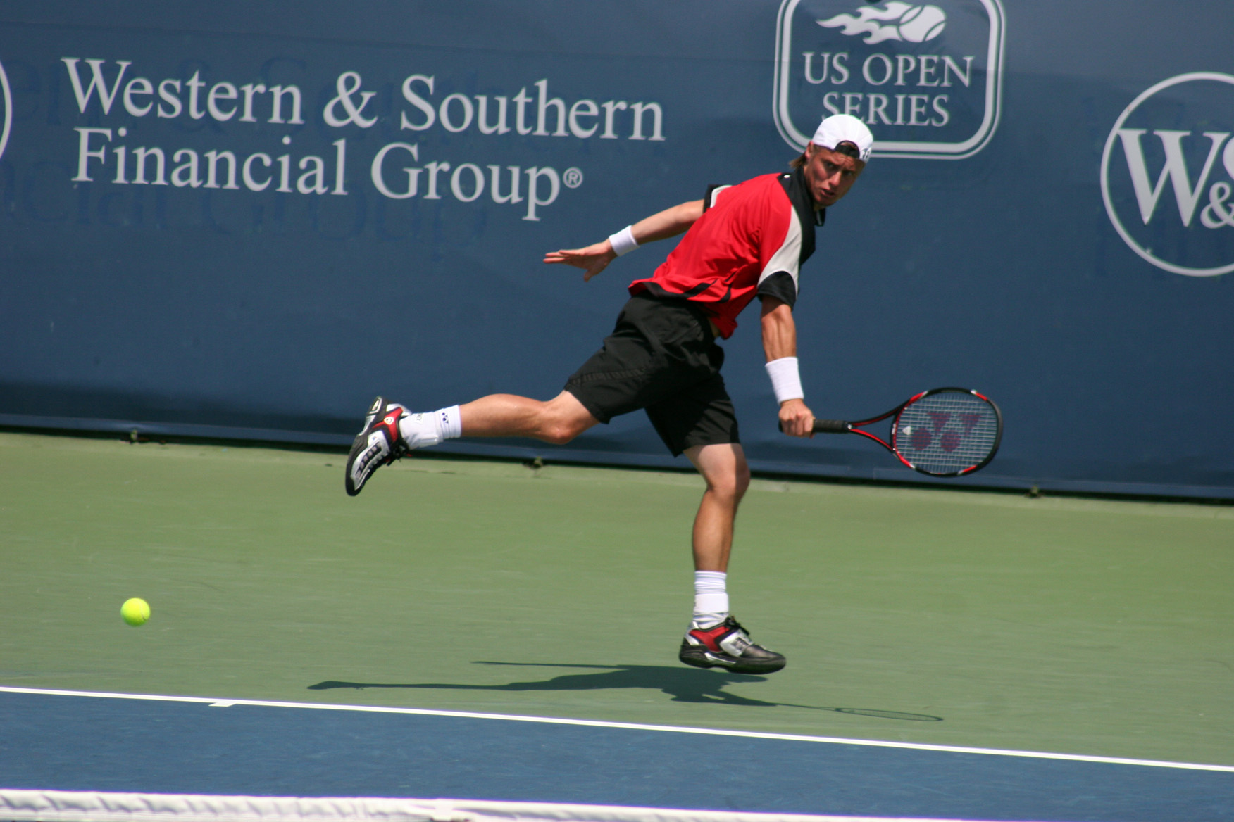 Lleyton Hewitt in his quarterfinal match versus Carlos Moya at the 2007 Cincinnati Masters.